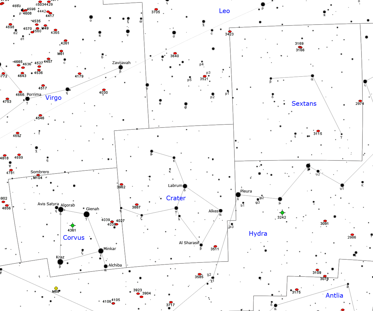 Map of Corvus, Crater, and Sextans